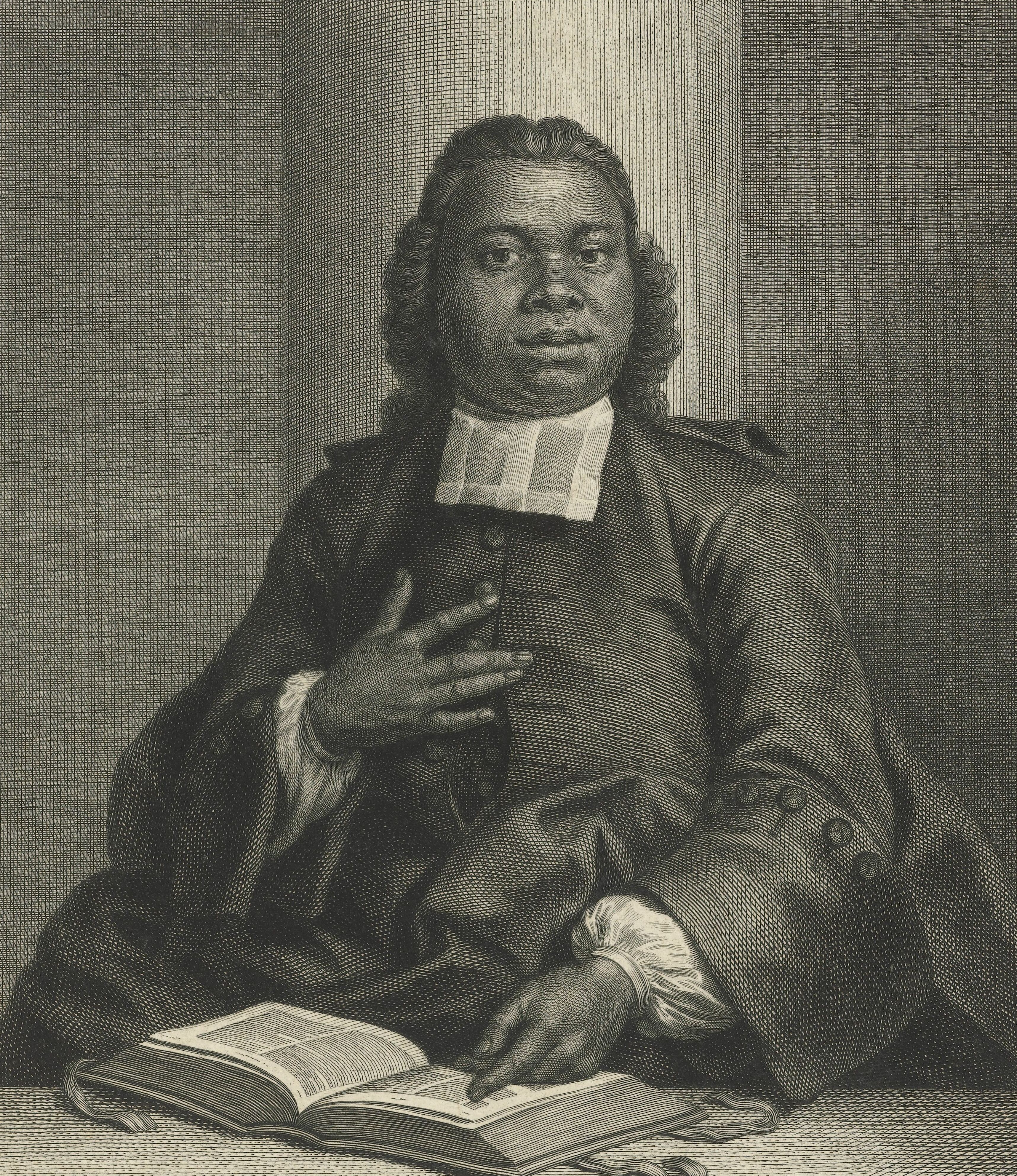 Jacobus Capitein (1717-1747). From: Staatkundig-godgeleerd onderzoekschrift over de slaverny, als niet strydig tegen de christelyke vryheid. Te Leyden, by Philippus Bonk, 1742